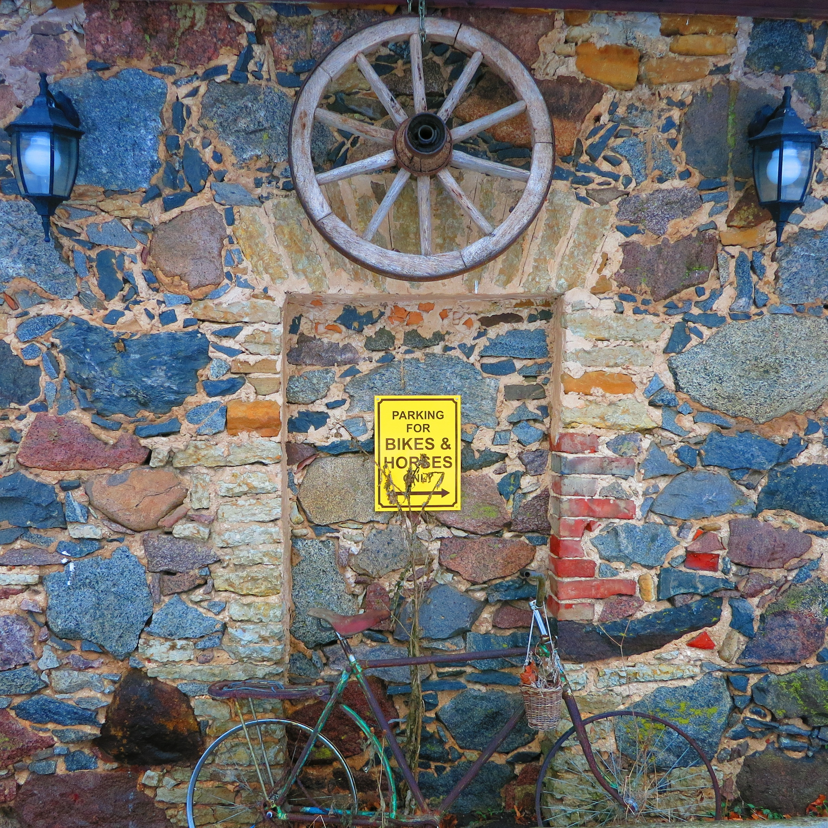 Wall of Voka restaurant Mõisa Ait (previous Voka Manor Smithy) (Ida-Viru County, Estonia)